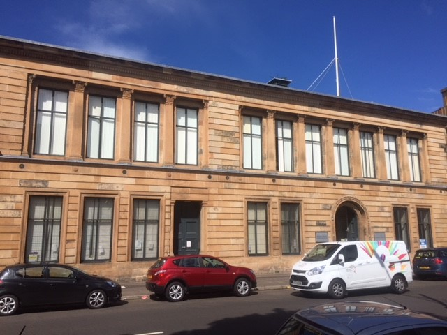 Govan Burgh Chambers designed by Scottish Architect John Burnet Snr in 1866. Building became the Orkney Street Police Station.